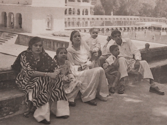 Mujaddid Ijaz with his mother, sisters and brother, circa 1957